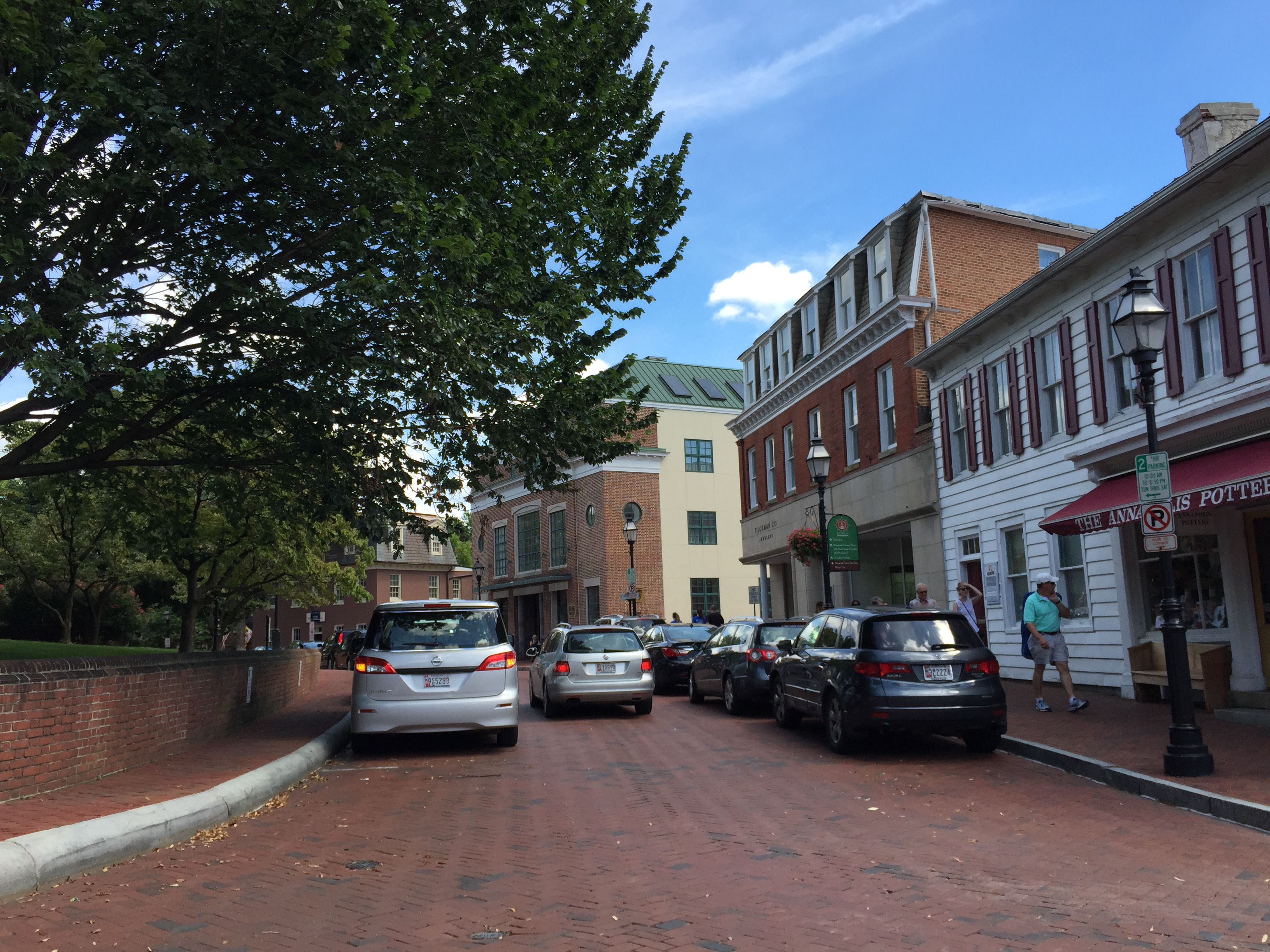 View northeast along Maryland State Route 797 (State Circle) at Francis Street in Annapolis, Anne Arundel County, Maryland